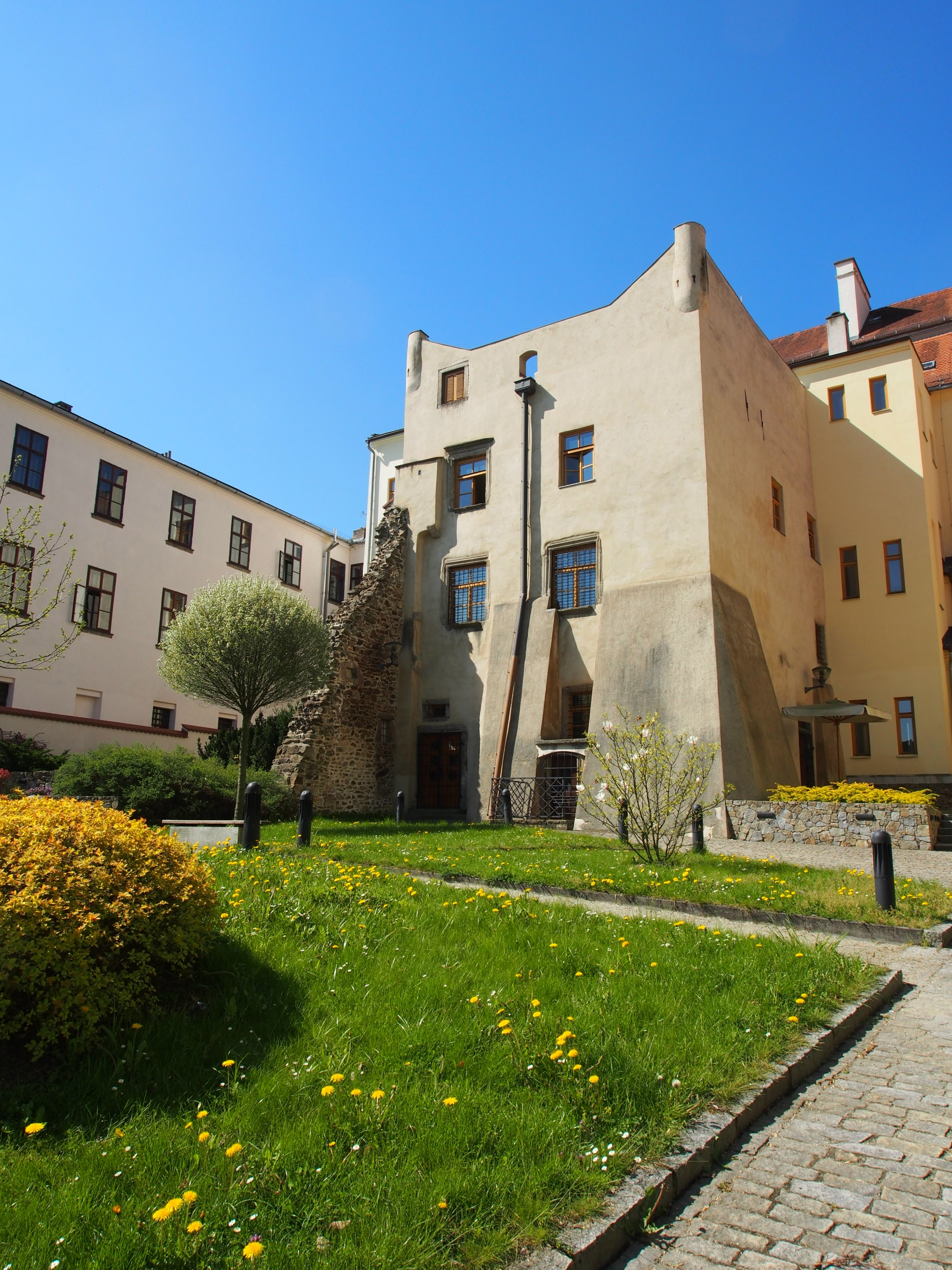 Townhall yard